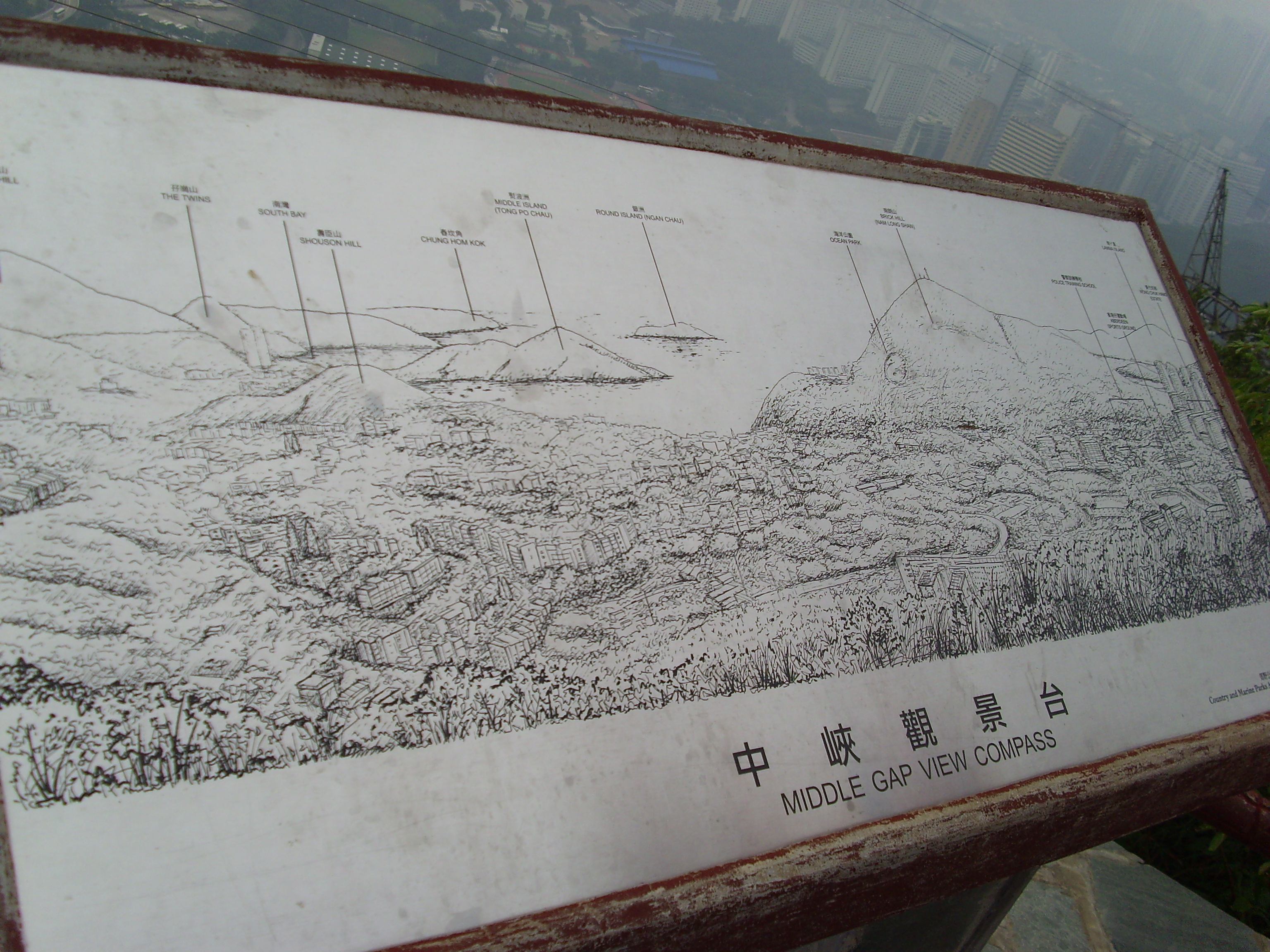 中峽觀景台 Middle Gap View Compass